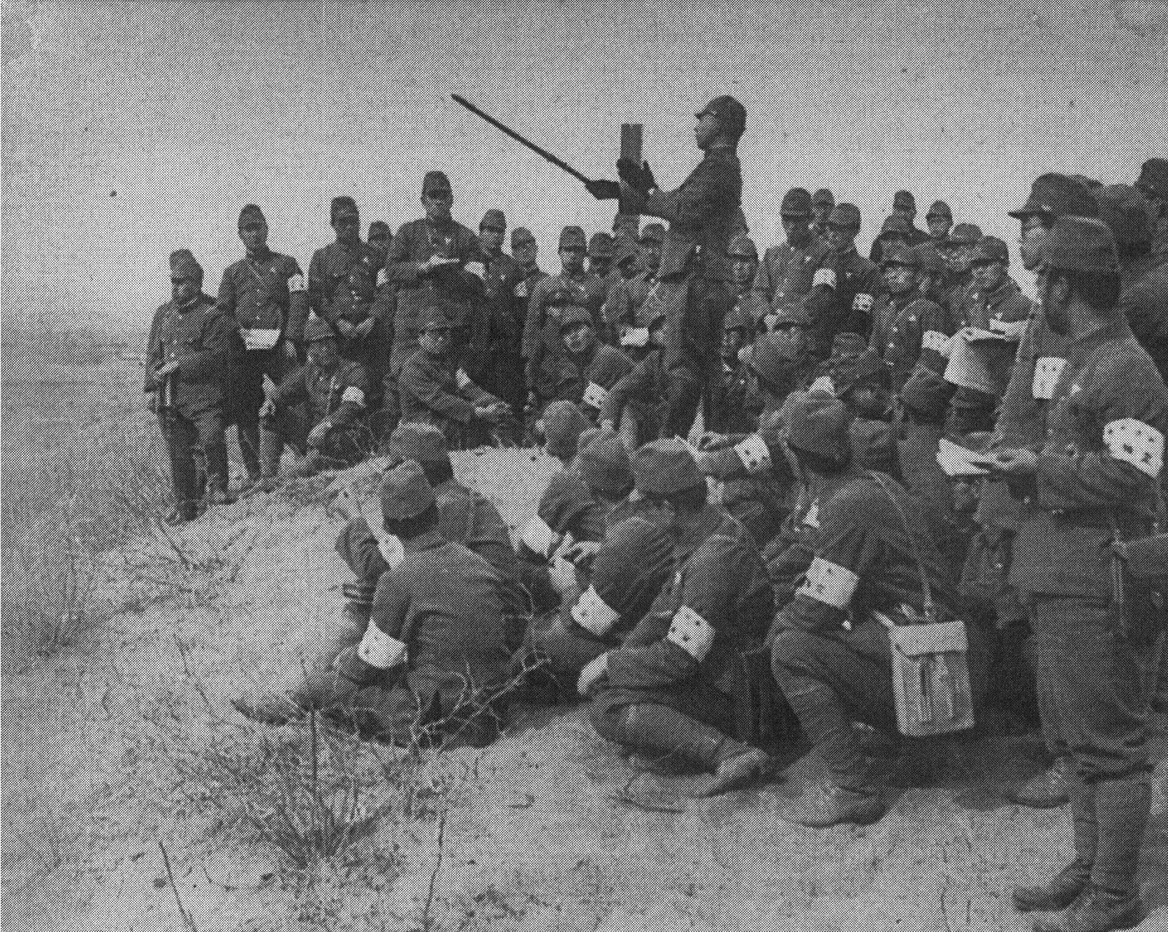 New Pacification Unit Members come from home country are listening to the outbreak of the Sino-Japanese War at Ichimonji-yama hill, near the Marco Polo Bridge.